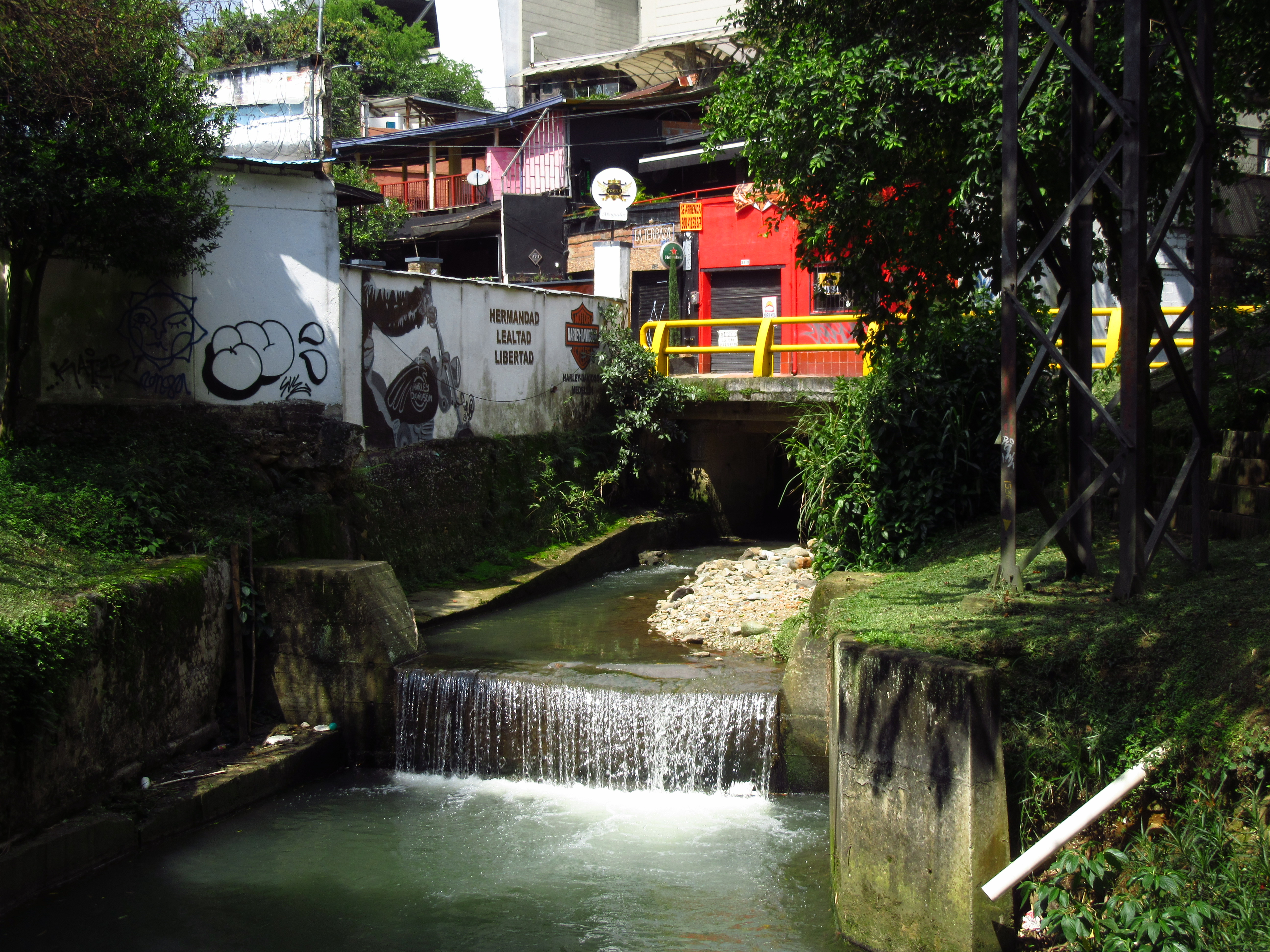 Medellín